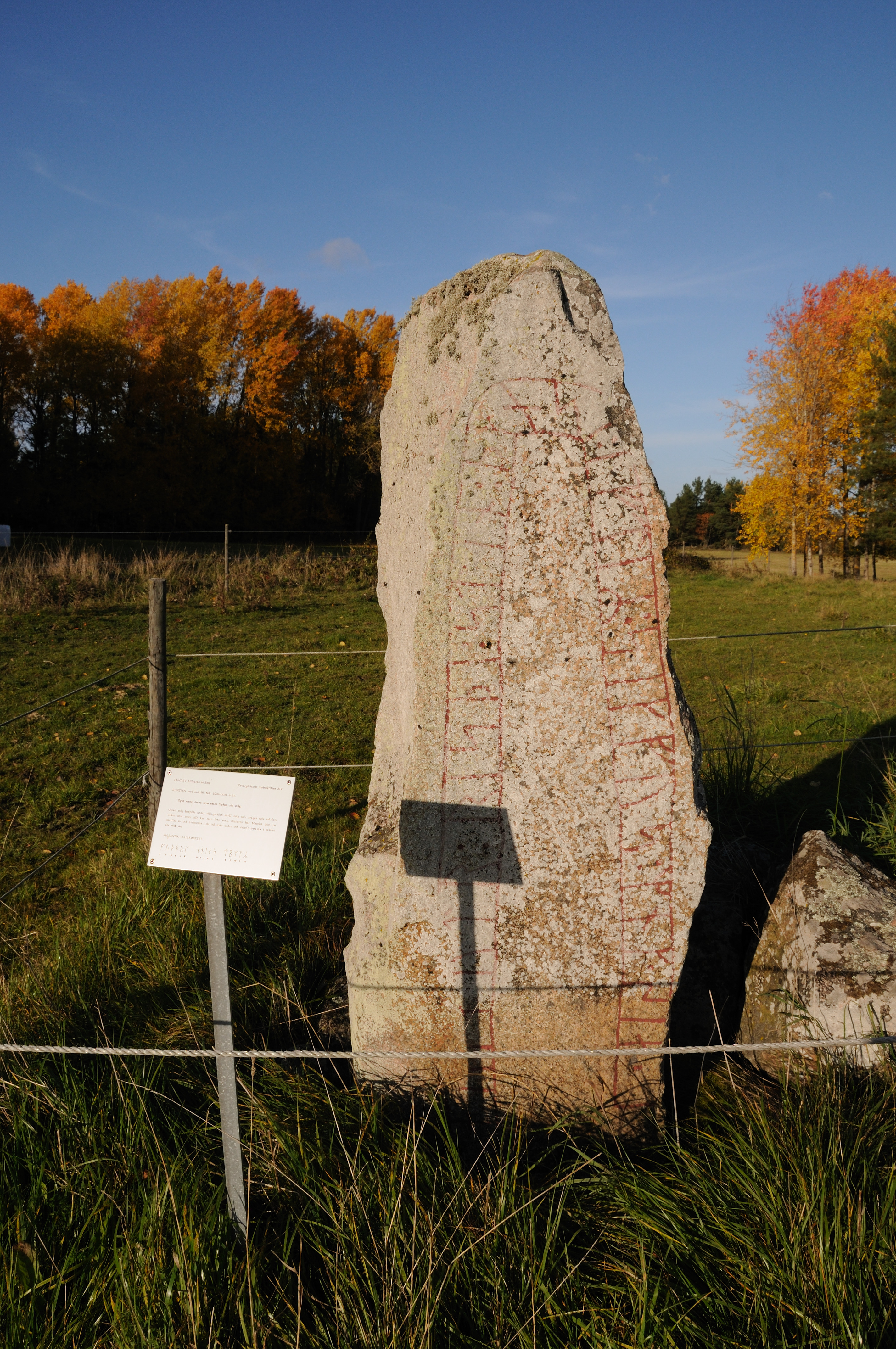 Runestone Ög 219 in Lundby, Lillkyrka parish, Linköping municipality, Östergötland, Sweden.